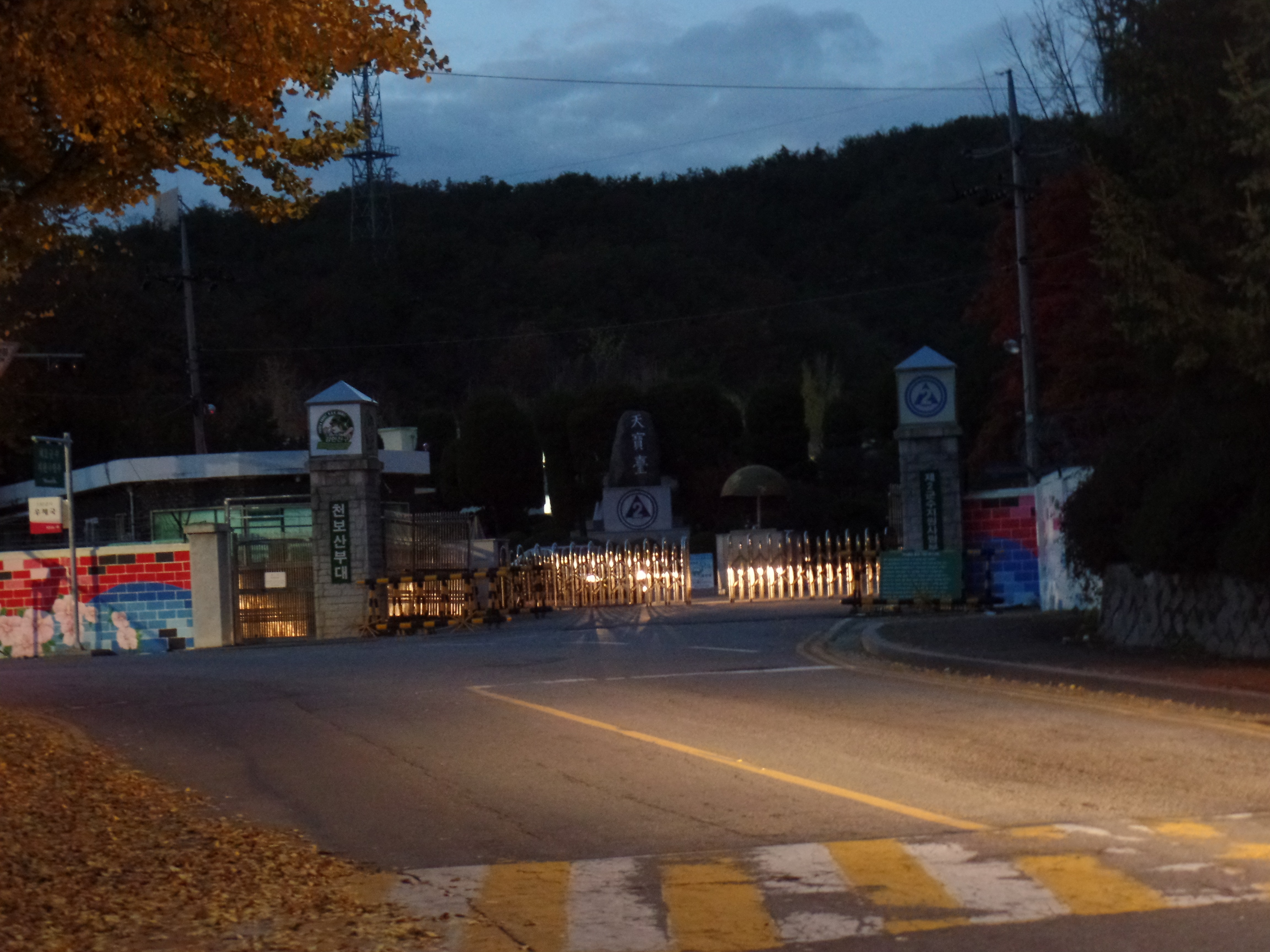 Main gate of Republic of Korea Army 2nd Logistical Support Command